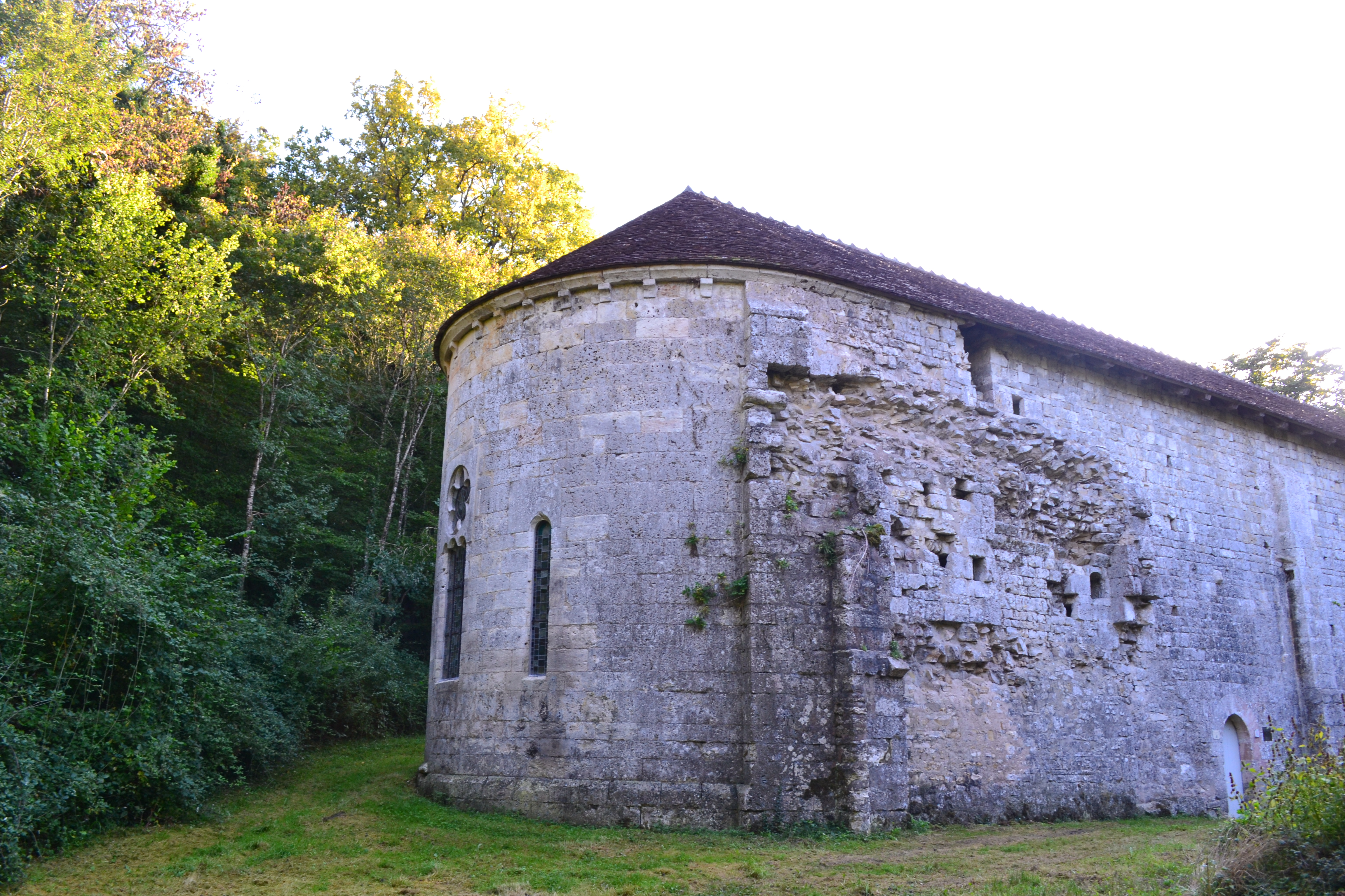 Prieuré de grandmont à corquoy